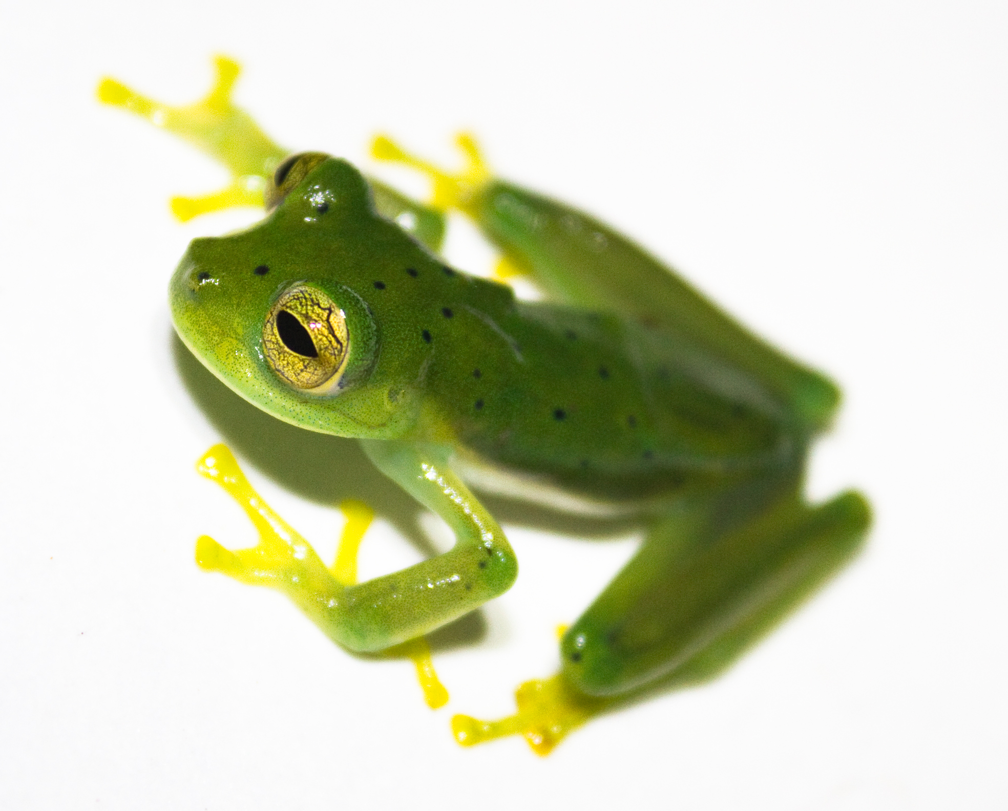 Emerald Glass Frog